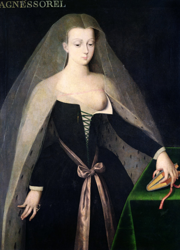 Portrait inspired by the Virgin in the Melun Diptych